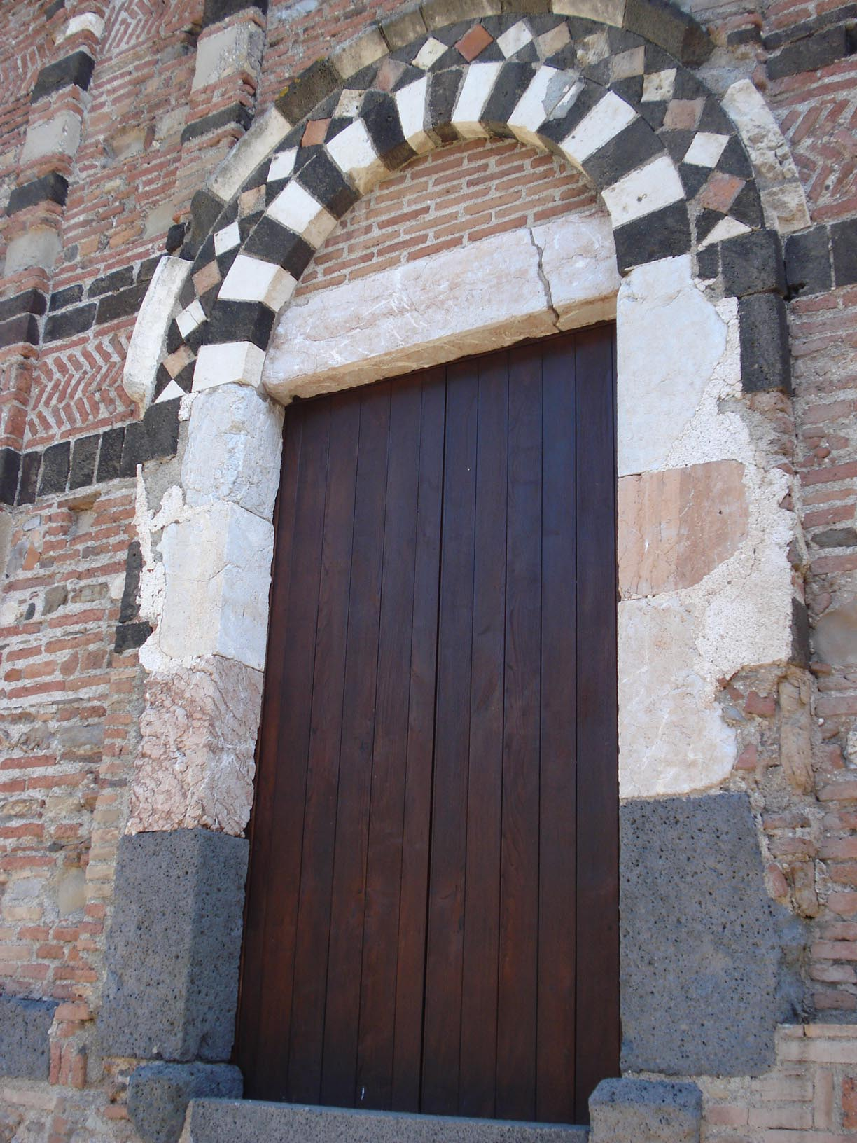 Southern portal